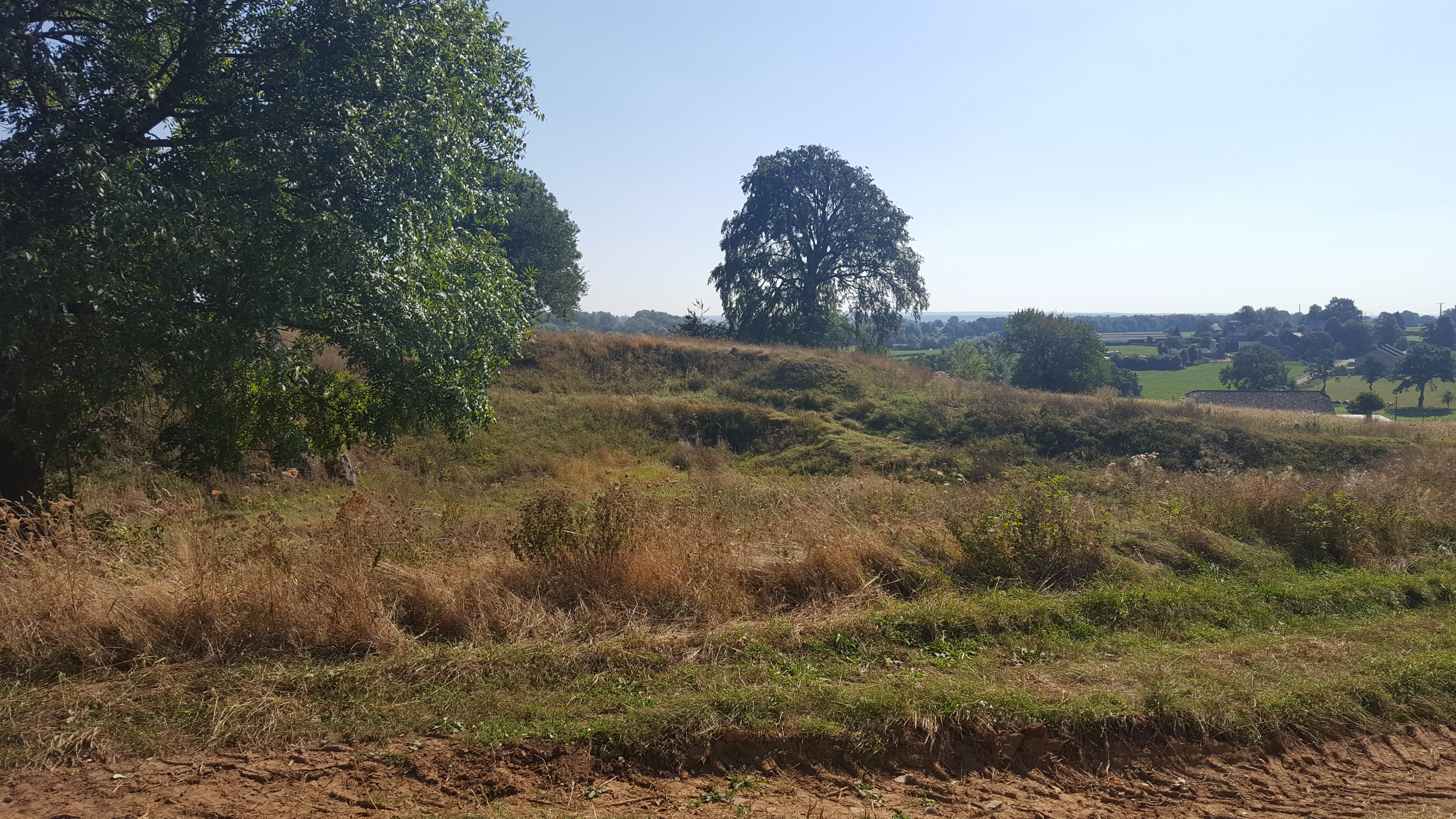 Galmeitrift (area of mine and surroundings), Lontzen, Belgium